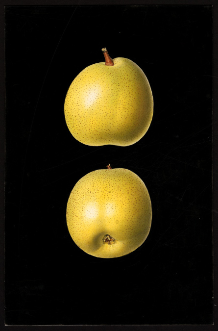 Artist: Steadman, Royal Charles, b. 1875 Scientific name: Pyrus ussuriensis Common name: pears Physical description: 1 art original : col. ; 17 x 25 cm. Specimen: 96519 Year: 1918 Notes on original: S.P.I. 26591; Pyrus ussuriensis (Domestic form)file M. Westwood. Det F.G. Meyer, U.S. National Arboretum, Washington, D.C.; Pyrus sinensis? Date created: 1918-11-29 Rights: Use of the images in the U.S. Department of Agriculture Pomological Watercolor Collection is not restricted, but a statement of attribution is required. Please use the following attribution statement: "U.S. Department of Agriculture Pomological Watercolor Collection. Rare and Special Collections, National Agricultural Library, Beltsville, MD 20705"